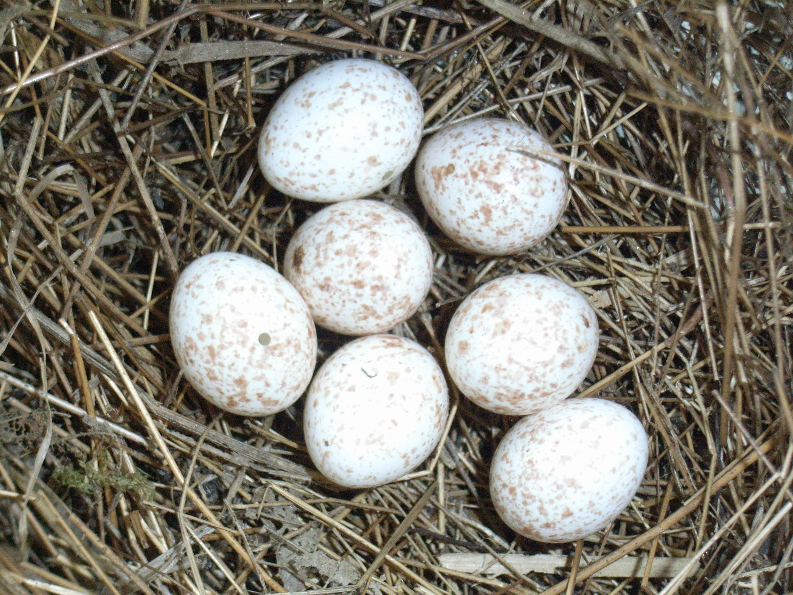 Phylloscopus trochilus eggs